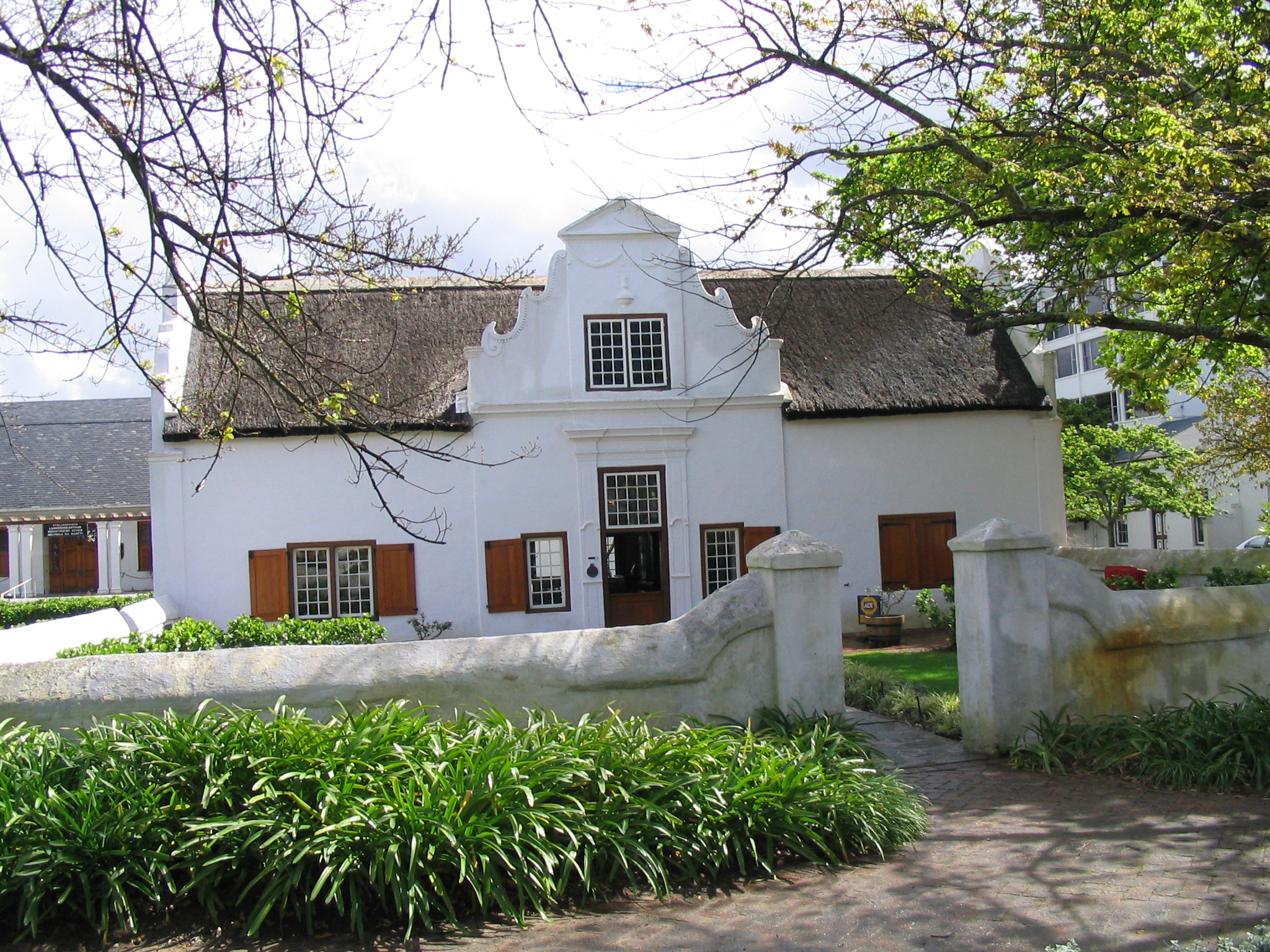 Burgher House (Fick House), 40 Blom Street, Stellenbosch This media shows a South African Protected Site with SAHRA file reference 9/2/084/0066.